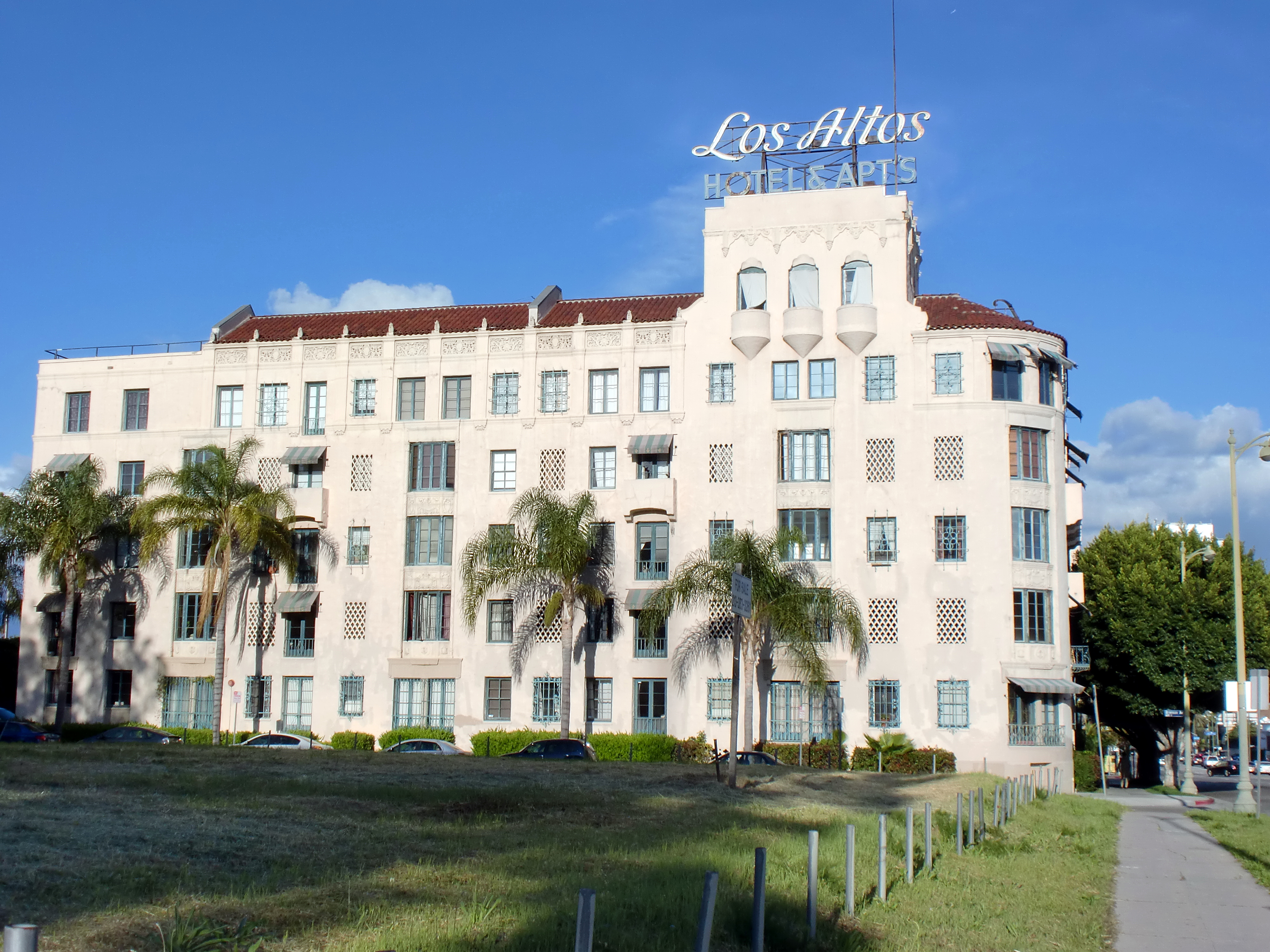 along in Los Angeles.